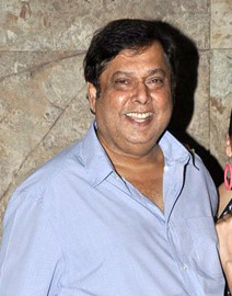 David Dhawan at Singham Screening